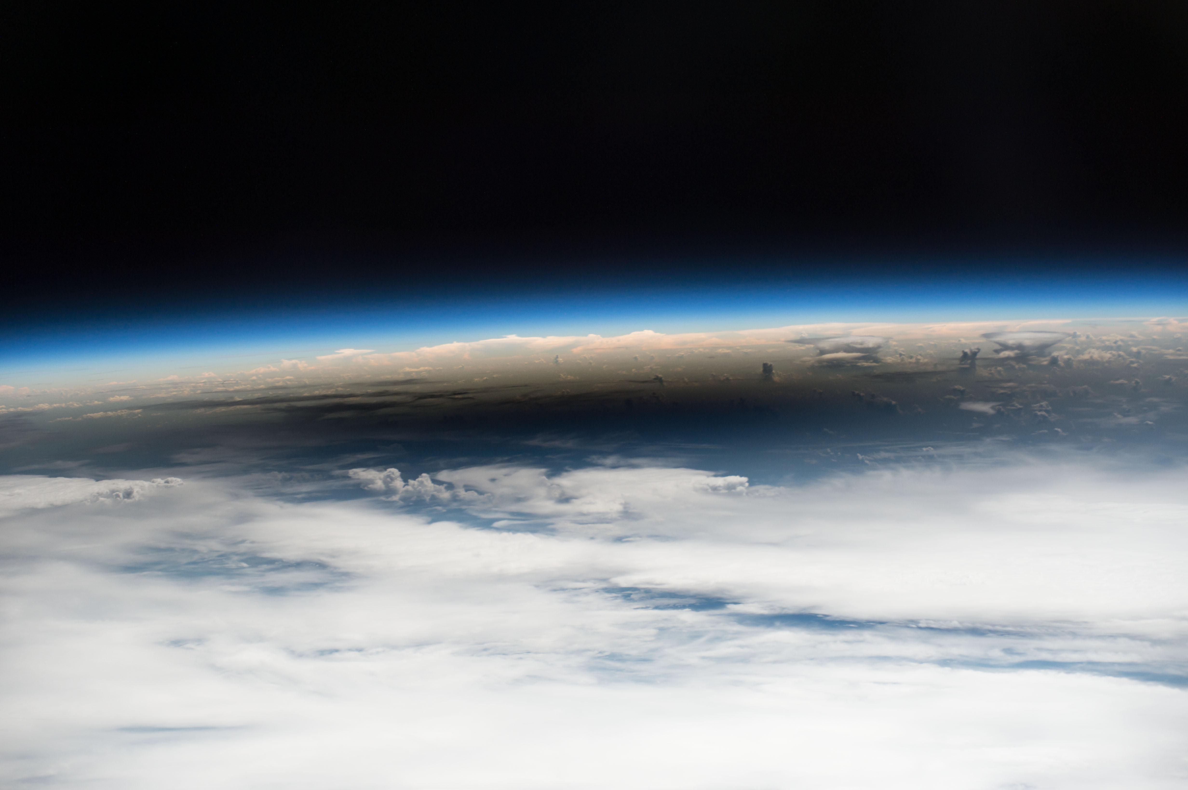 As millions of people across the United States experienced a total eclipse as the umbra, or moon’s shadow passed over them, only six people witnessed the umbra from space. Viewing the eclipse from orbit were NASA’s Randy Bresnik, Jack Fischer and Peggy Whitson, ESA (European Space Agency’s) Paolo Nespoli, and Roscosmos’ Commander Fyodor Yurchikhin and Sergey Ryazanskiy. The space station crossed the path of the eclipse three times as it orbited above the continental United States at an altitude of 250 miles.